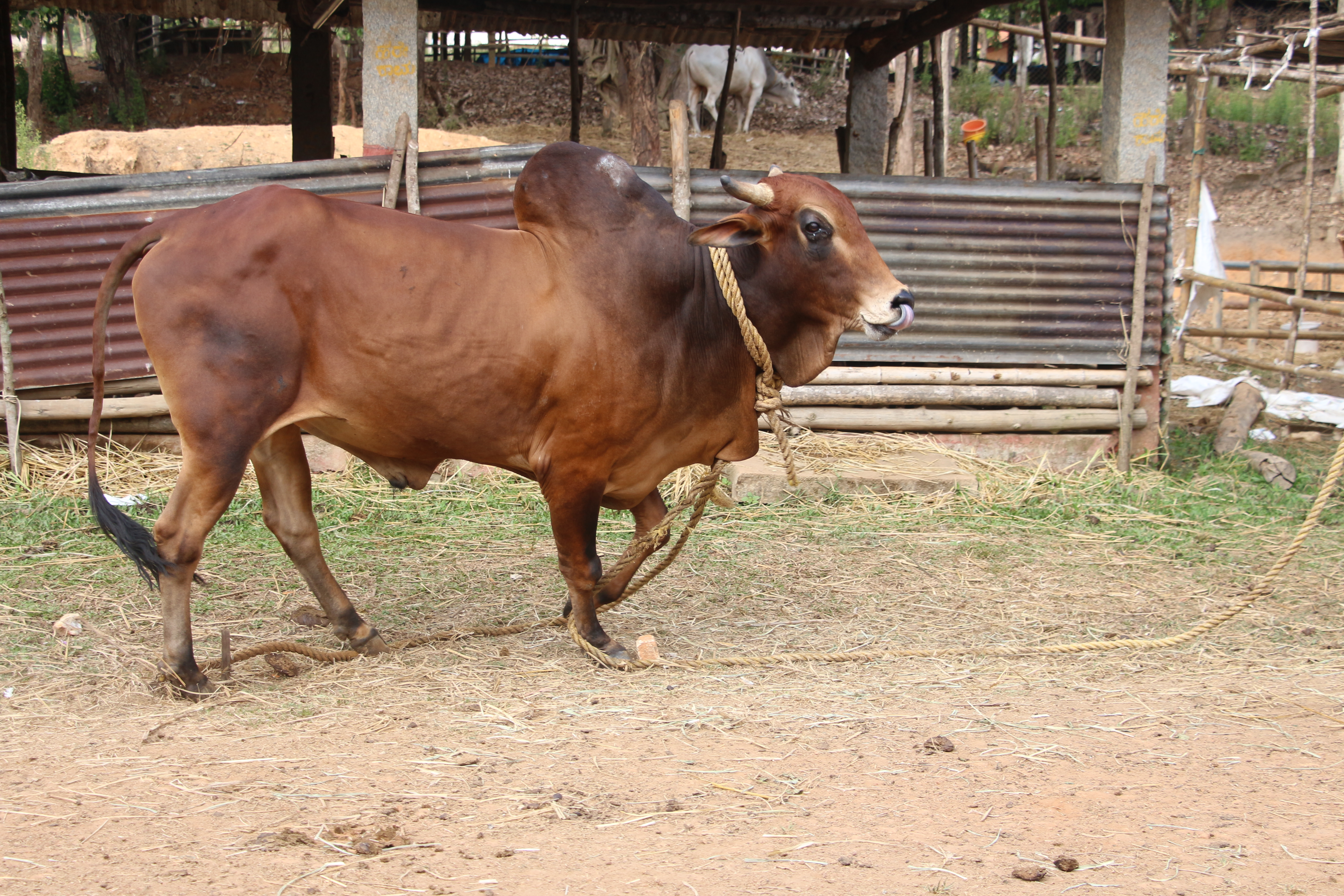 Indian cow breed Red Kandhariಕನ್ನಡ: ಭಾರತೀಯ ಗೋತಳಿ ಲಾಲ್ ಕಂಧಾರಿ